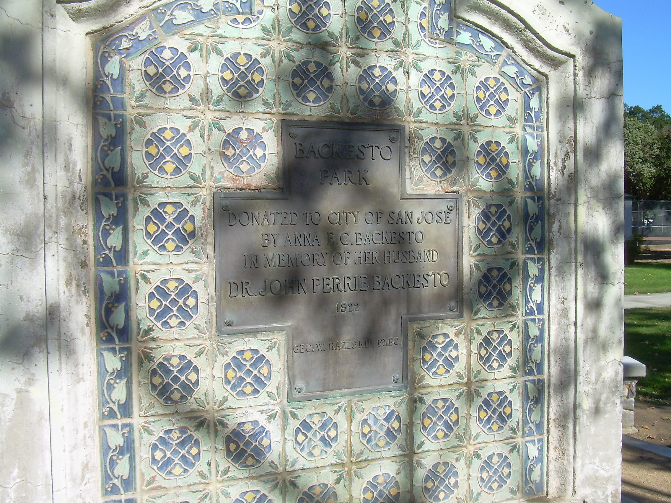 Backesto Park Fountain with S&S tile in San Jose, California